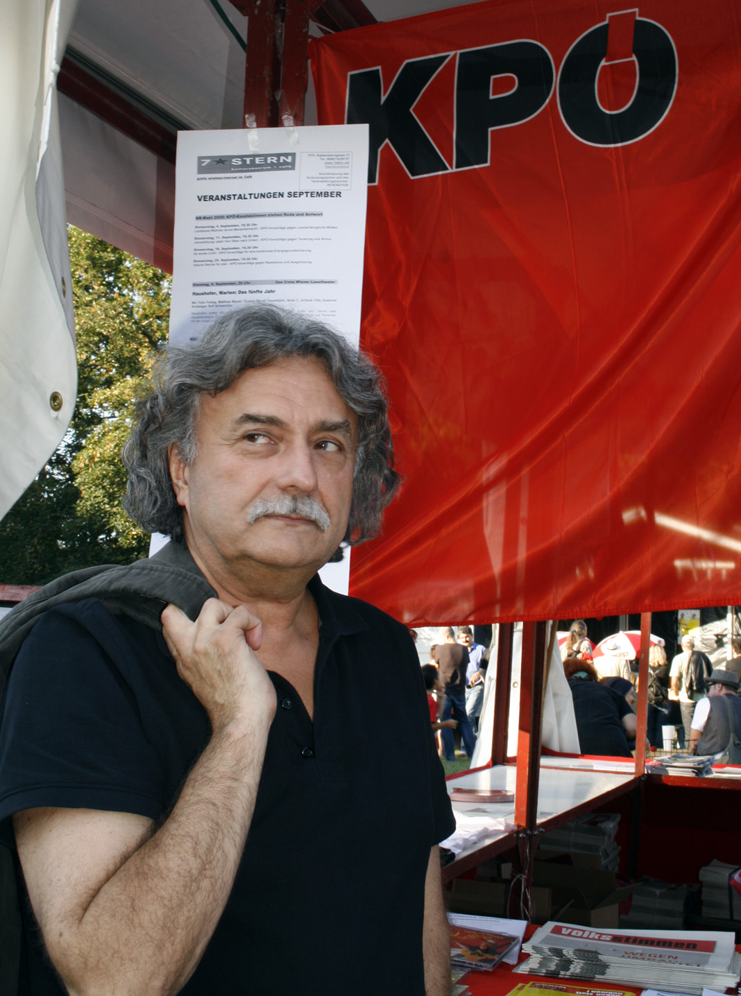 Austrian politician Mirko Messner at the Volksstimmefest of the Communist Party of Austria (Prater, Vienna).